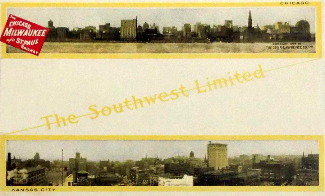 Postcard promoting The Southwest Limited. This Milwaukee Road train traveled from Chicago to Kansas City.